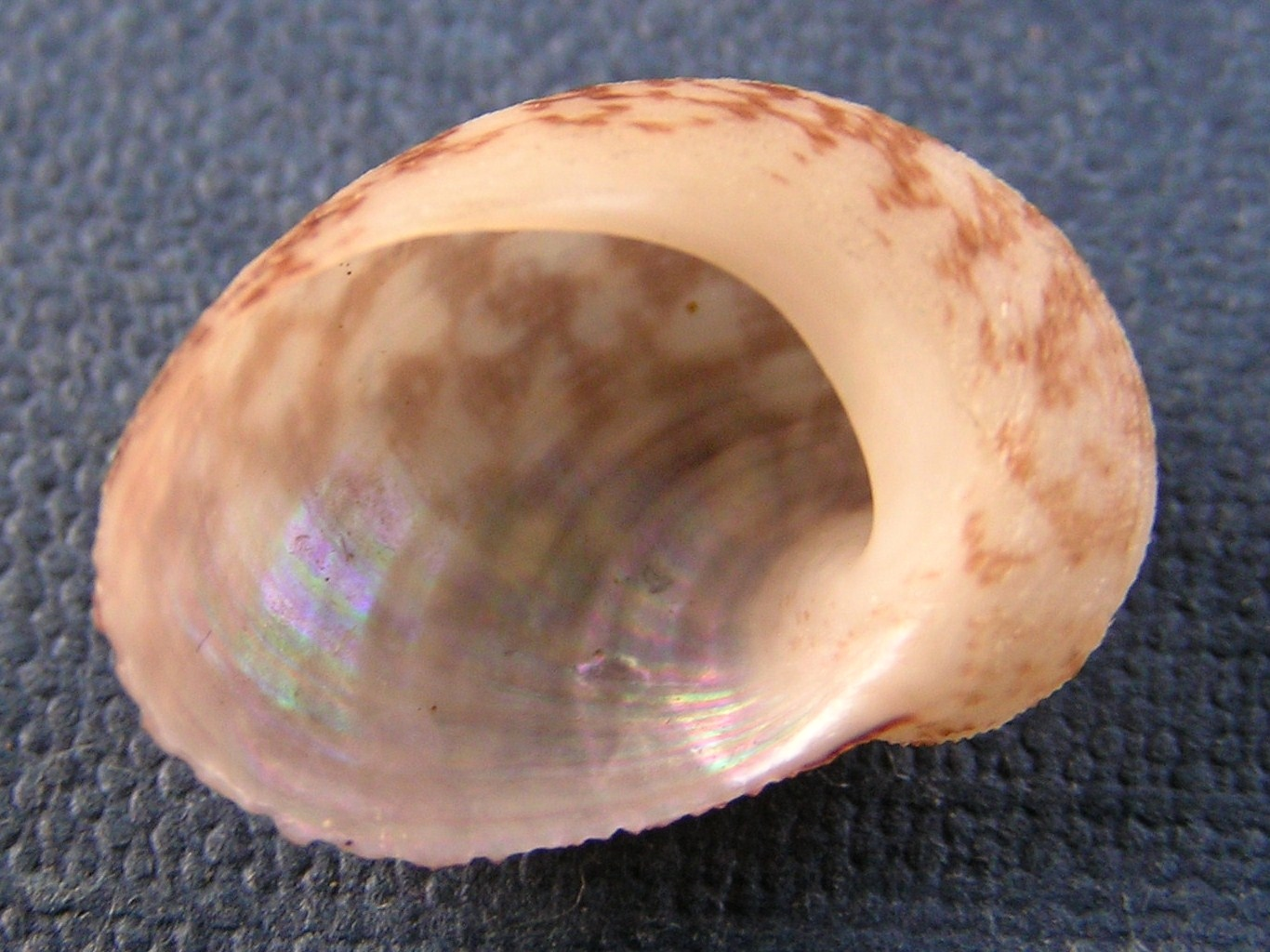 Granata sulcifera (Lamarck, 1822), a top snail from the family Trochidae; Philippines